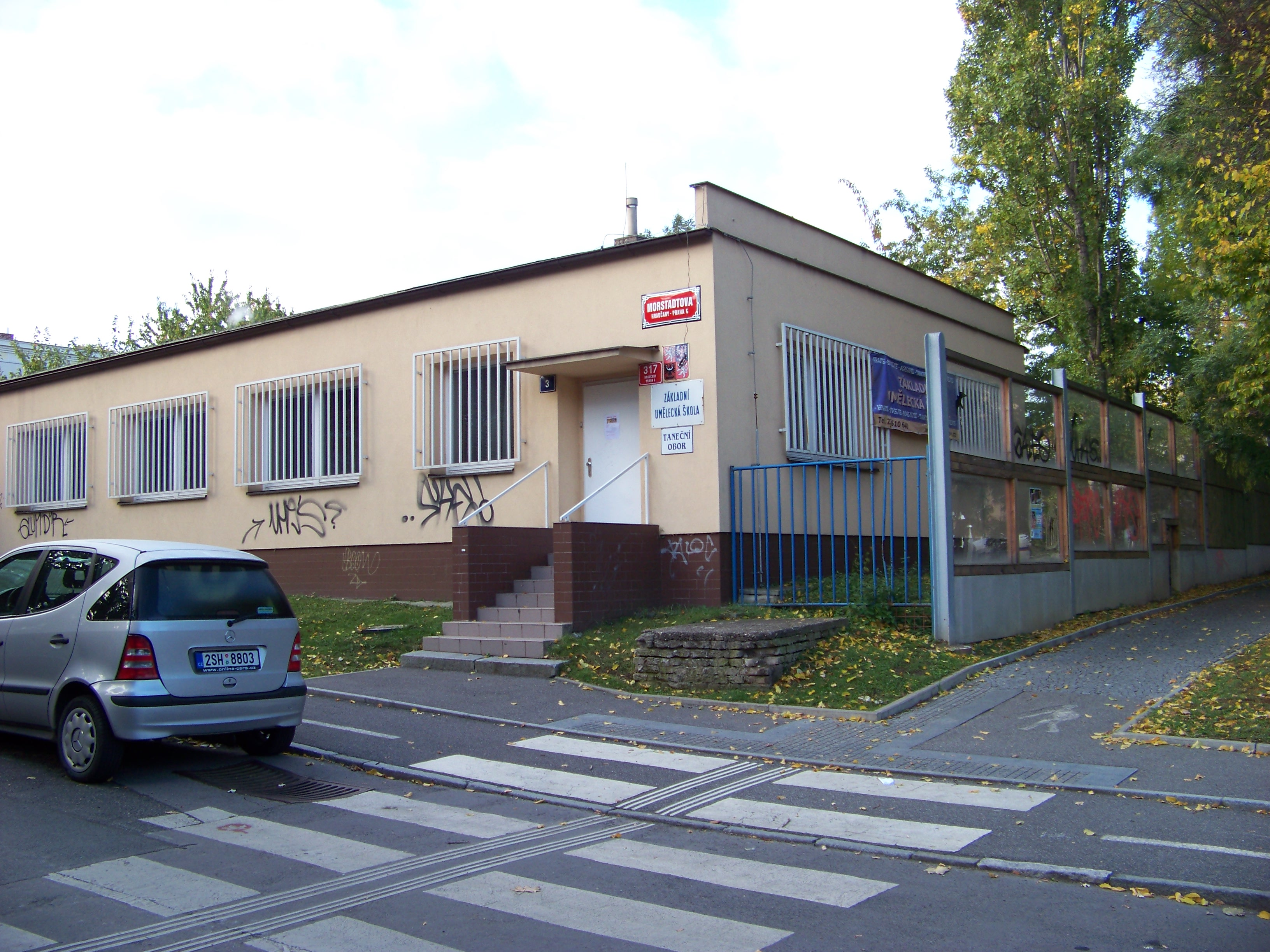 Prague-Hradčany, the Czech Republic. Morstadtova 317/3, a primary art school. - Google Maps - Google Earth